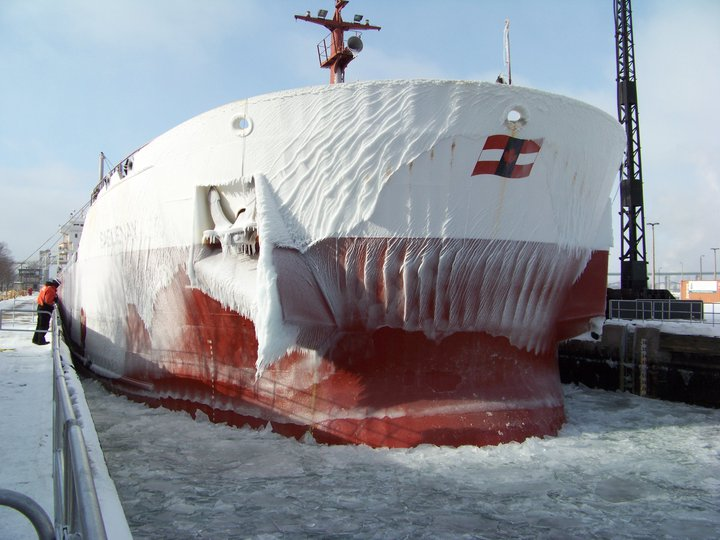 MICHIGAN — The ice coated Saguenay pushes ice as she enters the MacArthur Lock here, Dec. 14, 2010. (U.S. Army Corps of Engineers photo)